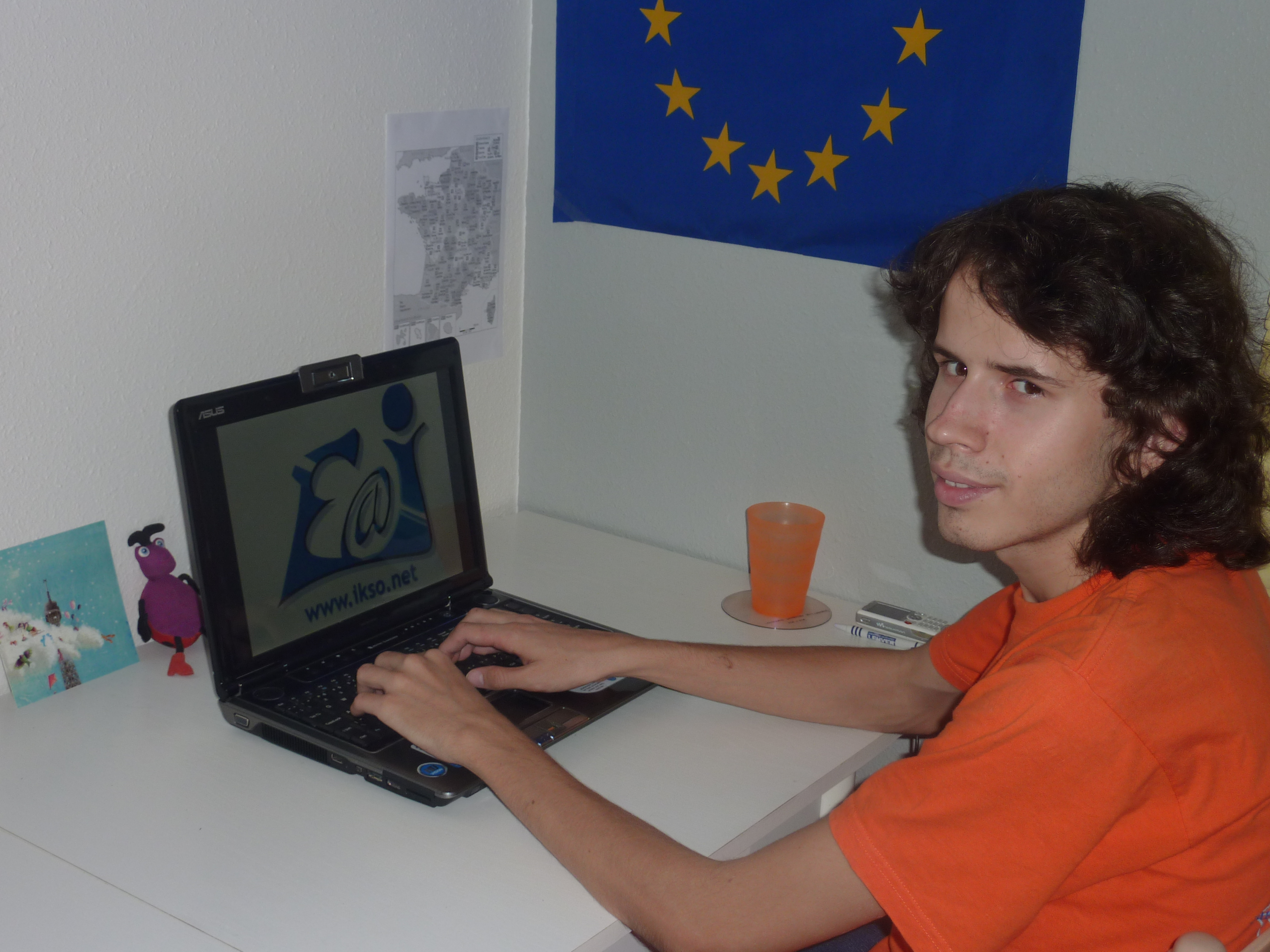 Marek Blahuš doing an internship for E@I in Nancy (France) within the Erasmus Programme in the period of September 2010 to May 2011.